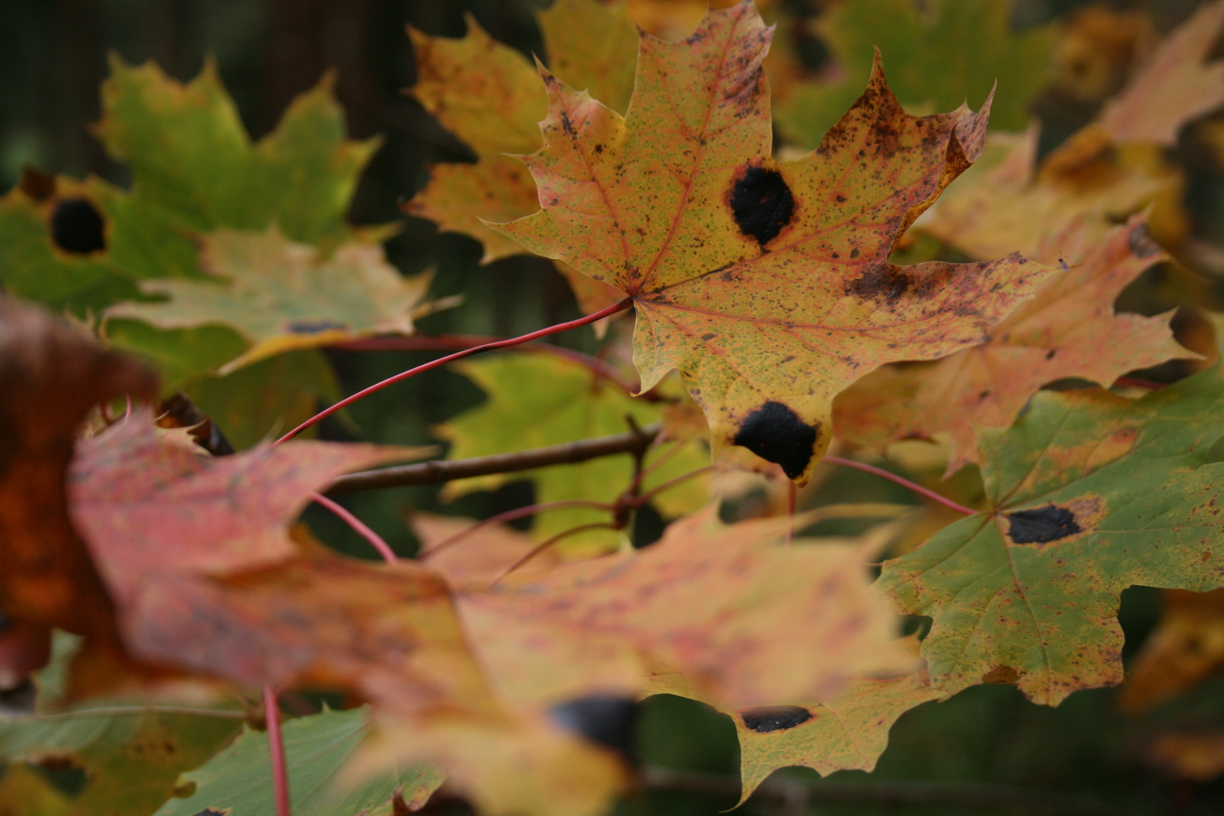 Tar Spot caused by Rhytisma acerinum